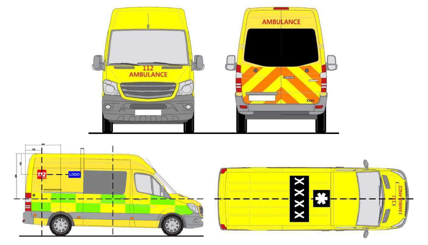 Annex 6 to the royal order of 12 November 2017 determining the exterior characteristics of the vehicles intervening within the framework of the emergency medical assistance